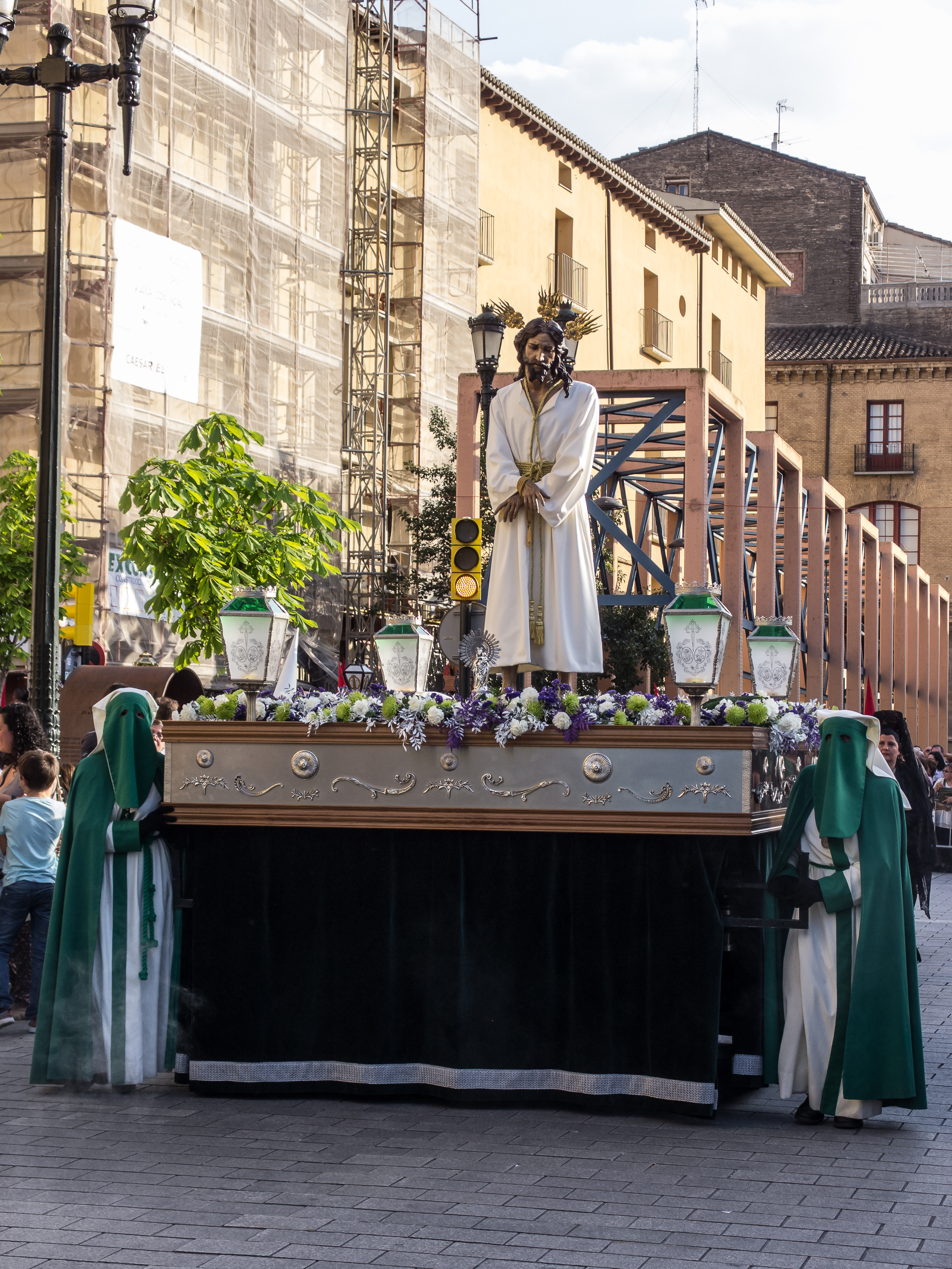 OLYMPUS DIGITAL CAMERA This is a photography of a Folklore festival in Spain (Wikidata id Q9075892).